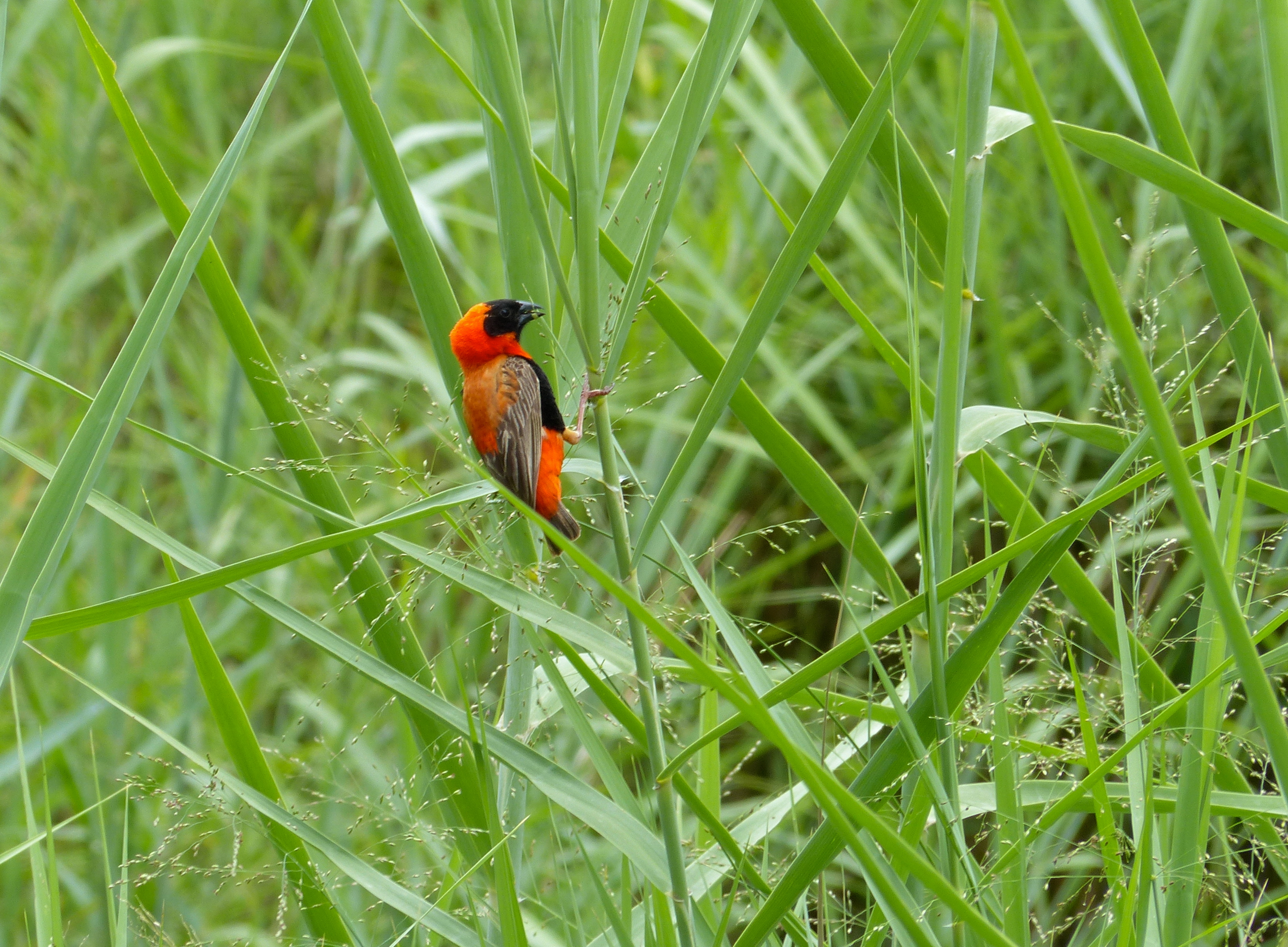 Ratel Pan Hide, S39 Road North of Satara, Kruger NP, SOUTH AFRICA